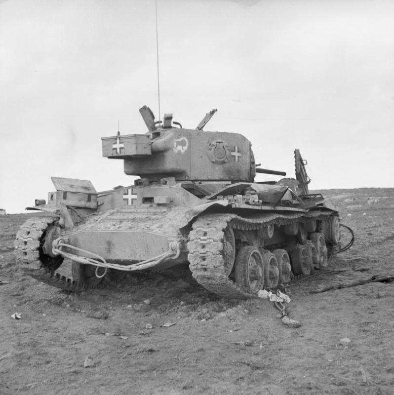 IWM caption : THE BRITISH ARMY IN TUNISIA 1943. A Valentine tank of 'A' Squadron, 17/21st Lancers which was captured by the Germans in November 1942 and used by them until it was knocked out, 24 February 1943.